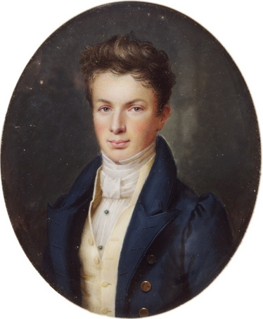 Thomas II Dobrée (1810-1895)